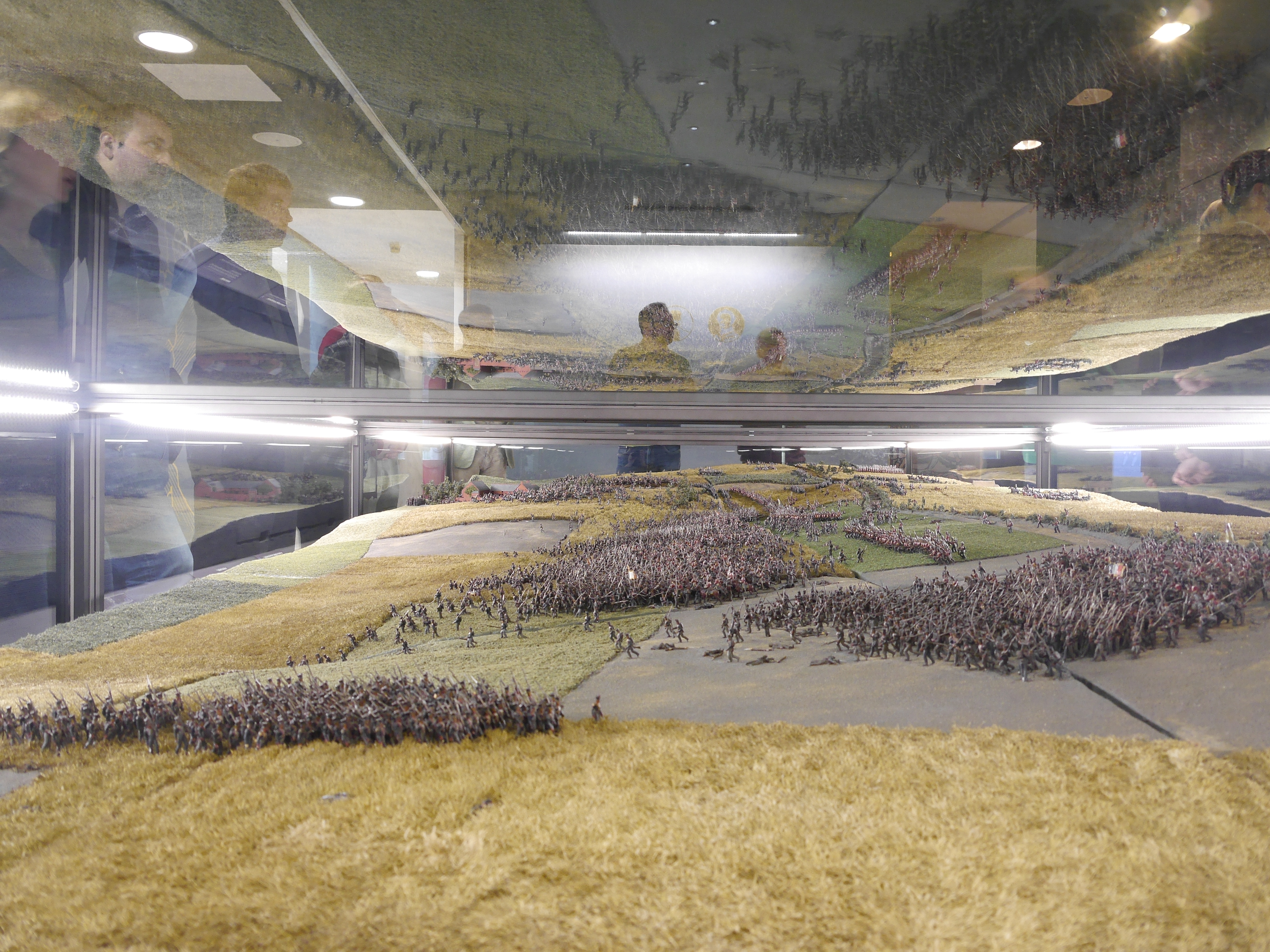 The large scale model of the Battle of Waterloo at the Royal Armouries during a gallery tour for the March 2016 editathon related to the battle